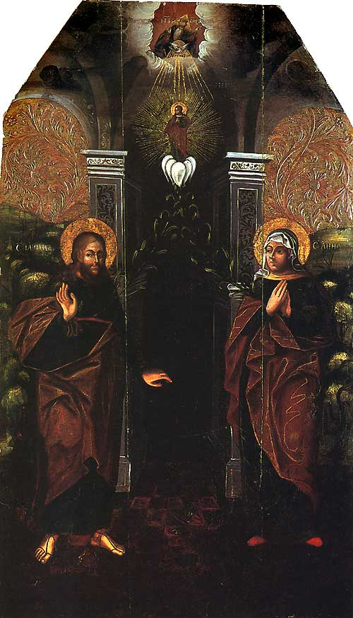 The Kissing of Joachim and Anna. 1723-1728.